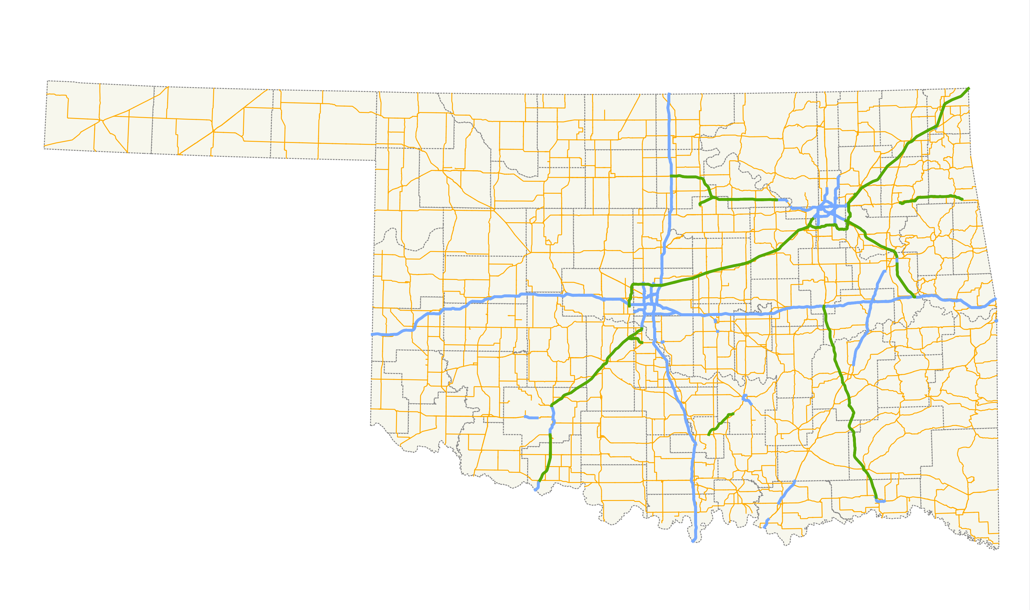 A map showing the path of all state highways and their spurs in Oklahoma.